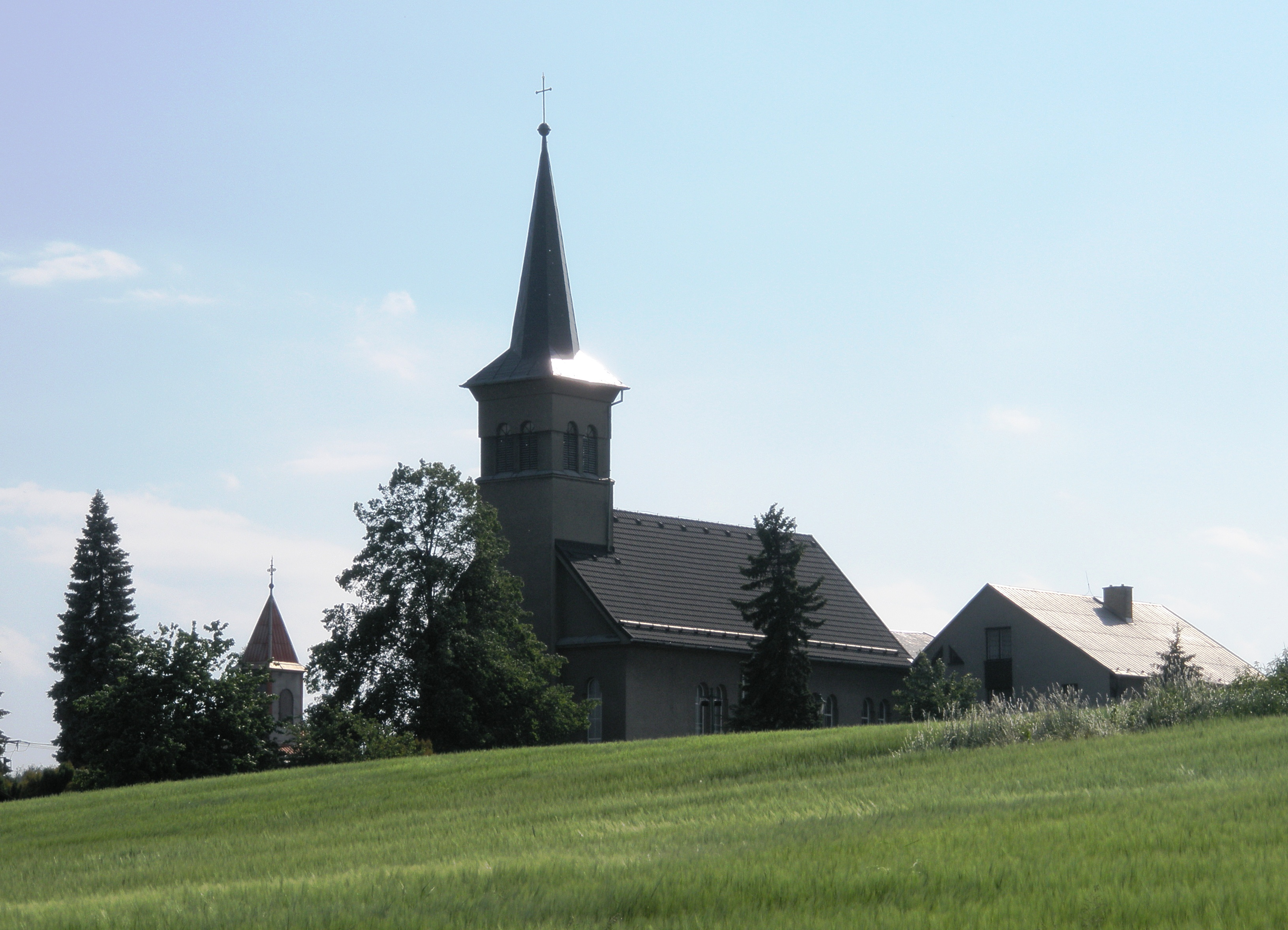 Lutheran church in Albrechtice.